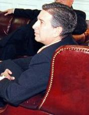 Vieques Discussions. Washington, D.C., — Secretary of the Navy Richard Danzig (left) announced today that an understanding had been reached with the Governor of Puerto Rico Pedro Rossello (right) on the use of the Navy's bombing range on the island of Vieques, Puerto Rico. At the request of Gov. Rossello, Secretary Danzig directed that no land operations occur on Vieques, to include live or inert fire and that all aircraft exercises over Vieques will fly at an altitude of 10,000 feet or higher until a presidential panel concludes its deliberations in August.